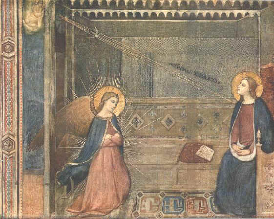 Santissima Annunziata church in Florence.